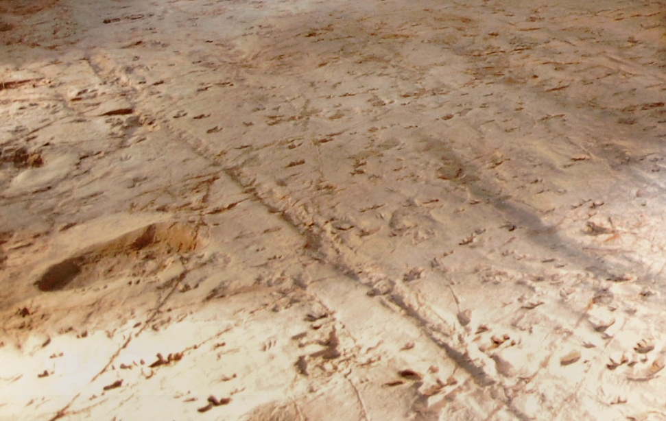 Dinosaur tracks at Lark Quarry. Tyrannosauropus footprints (large footprint) bottom left. Wintonopus footprints (medium size footprint) are numerous throughout. Coelurosaurs footprints are smallest throughout.